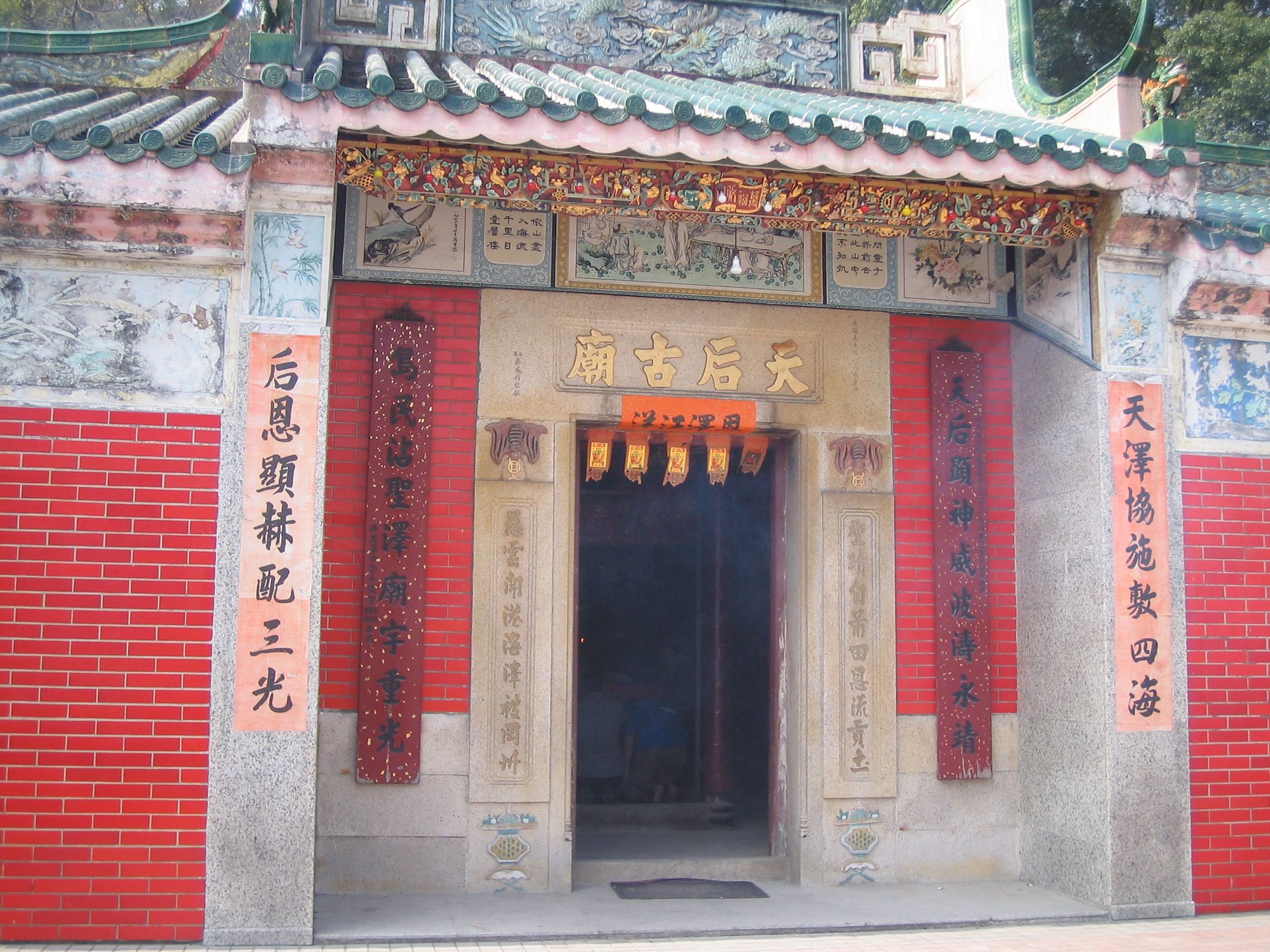 Tin Hau Temple in Saikung (Front View) I, Xiaowei take this photo by myself on 15 Jan 2006.